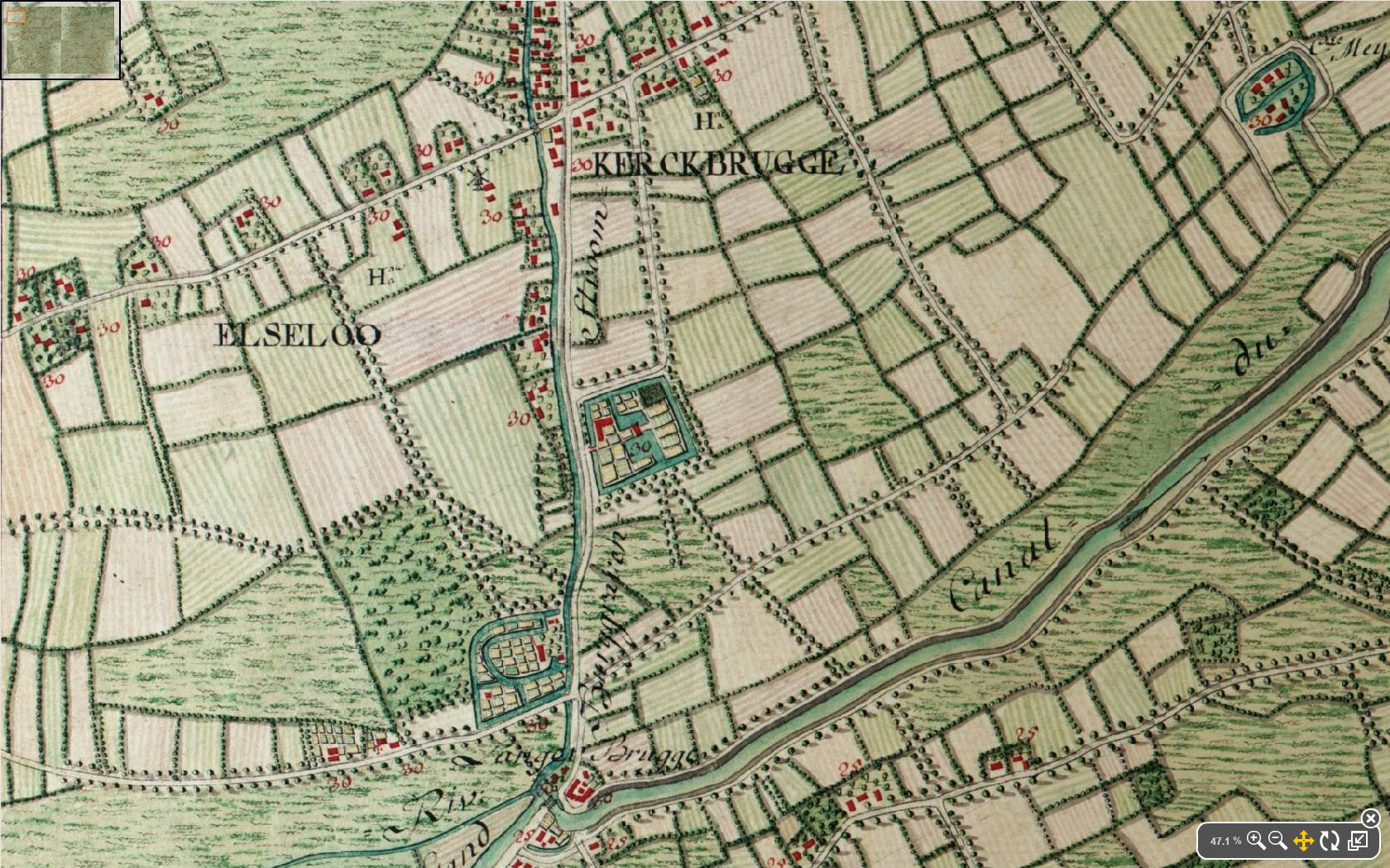 Kerkbrugge-Langerbrugge,_Ghent,_Belgium_op_de_Ferrariskaart,_1775.jpg